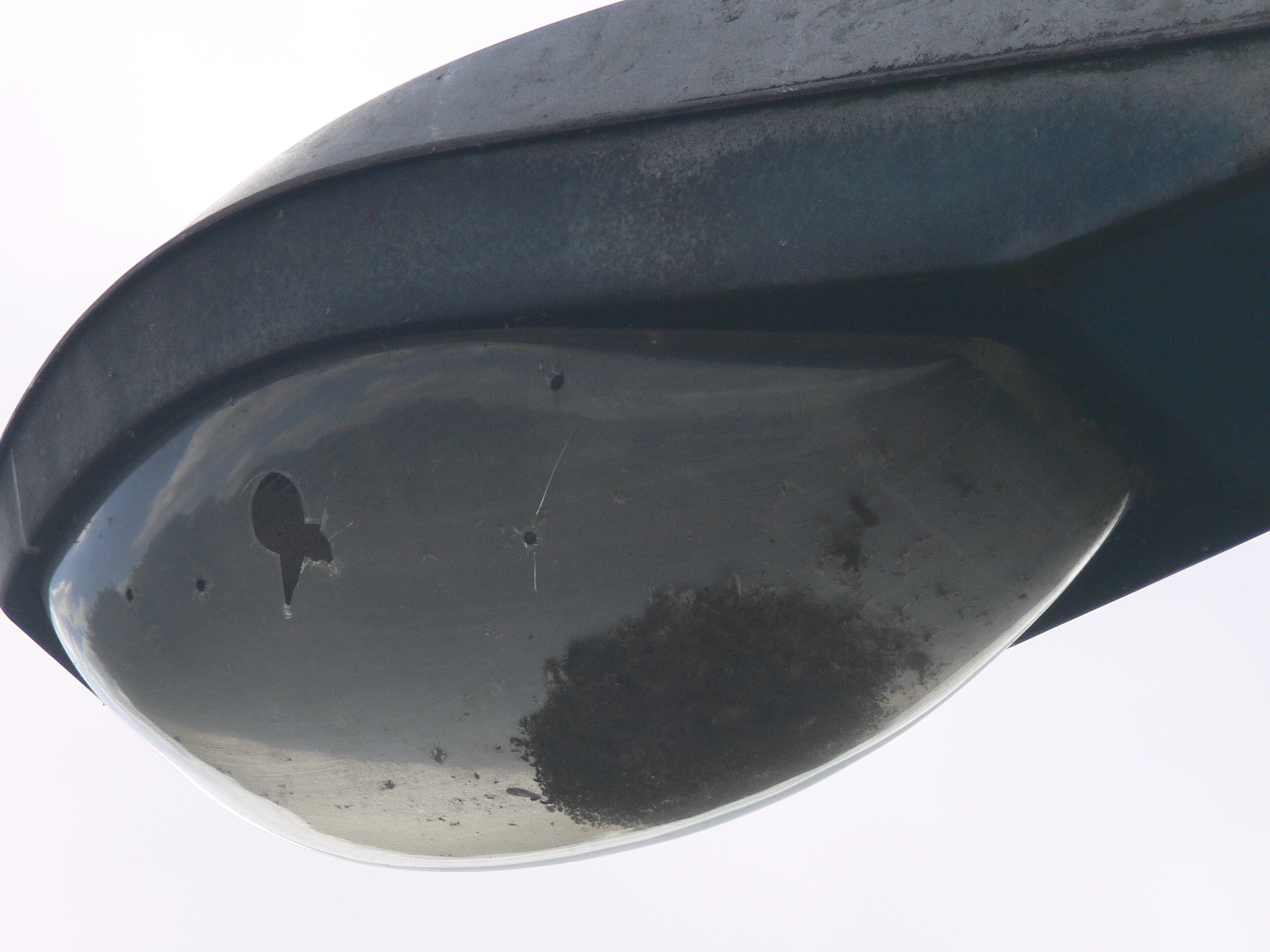 insects versus light (Lille, north of France)